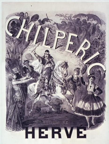 scene from operetaa